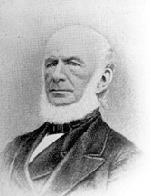 Portrait of Senator Lawrence Brainerd of Vermont